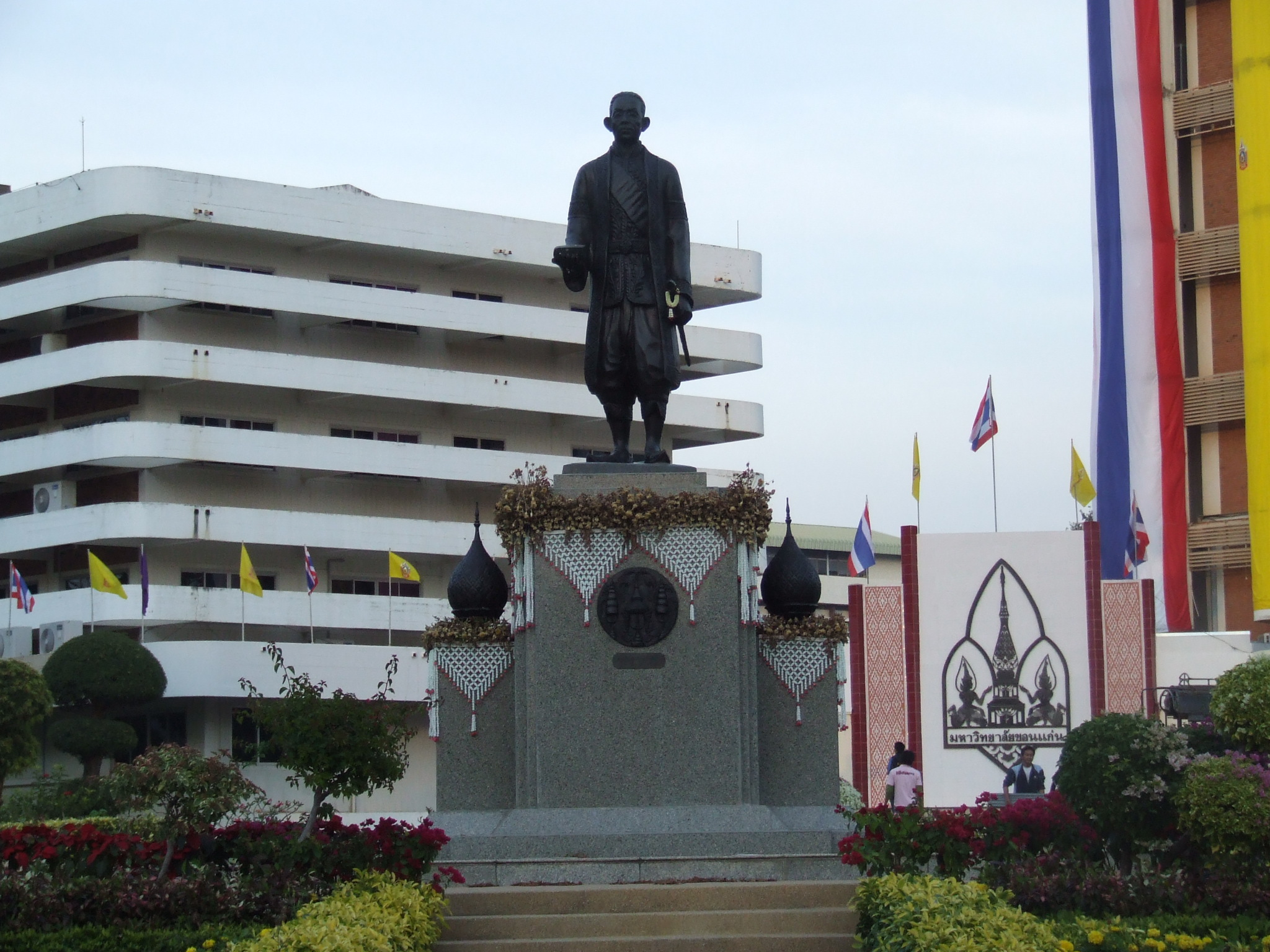 Monument of King Rama IV at the Faculty of Science, Khon Kaen University, Thailand.